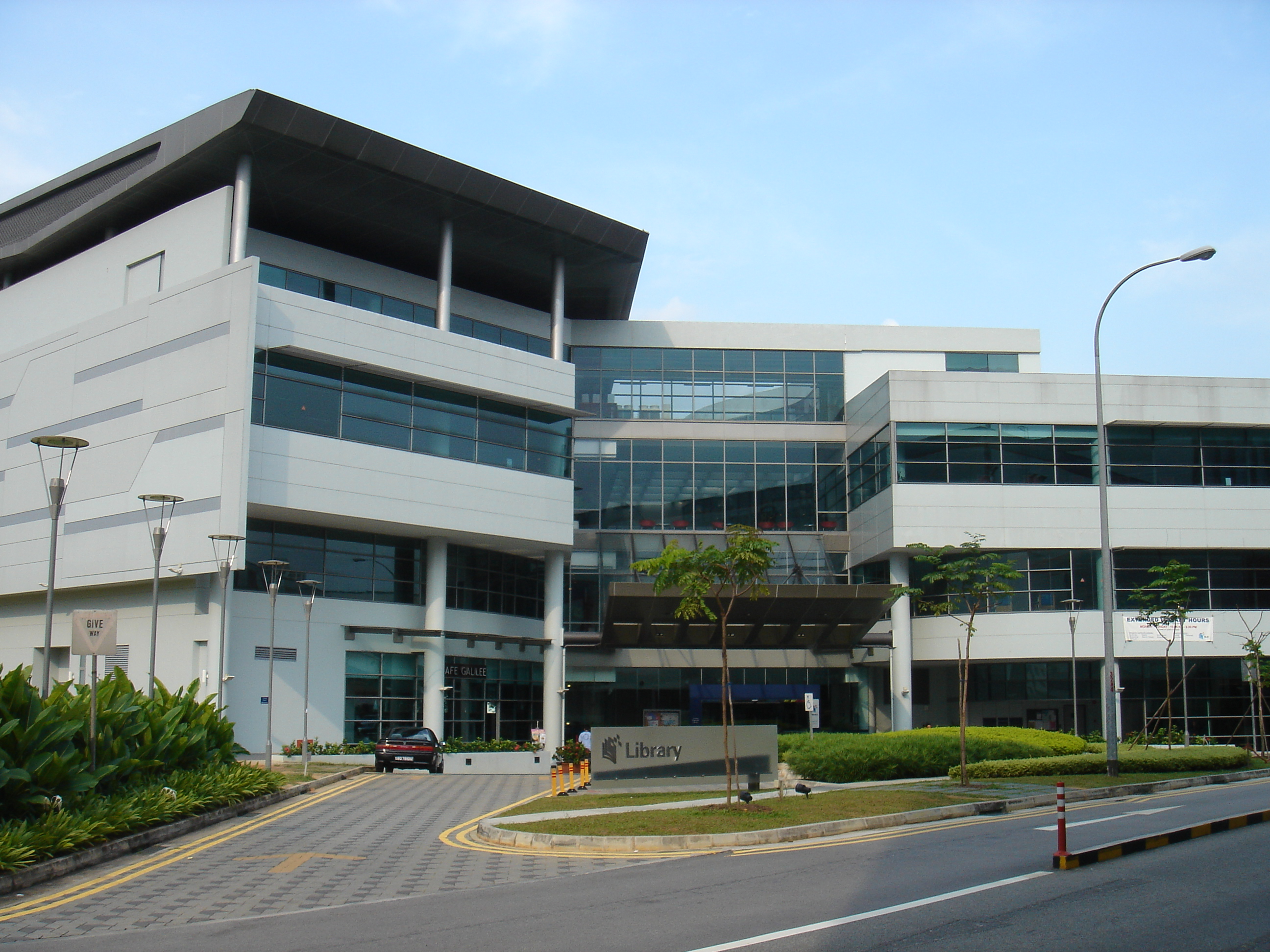 Shophouses at Jurong East Town, near the Jurong East MRT Station.